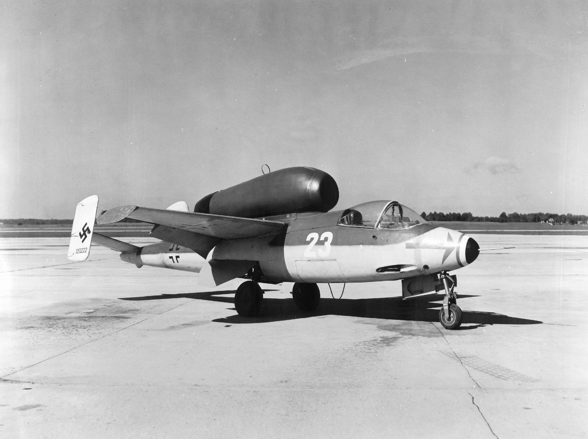 He 162 San Diego Air and Space Museum Archive